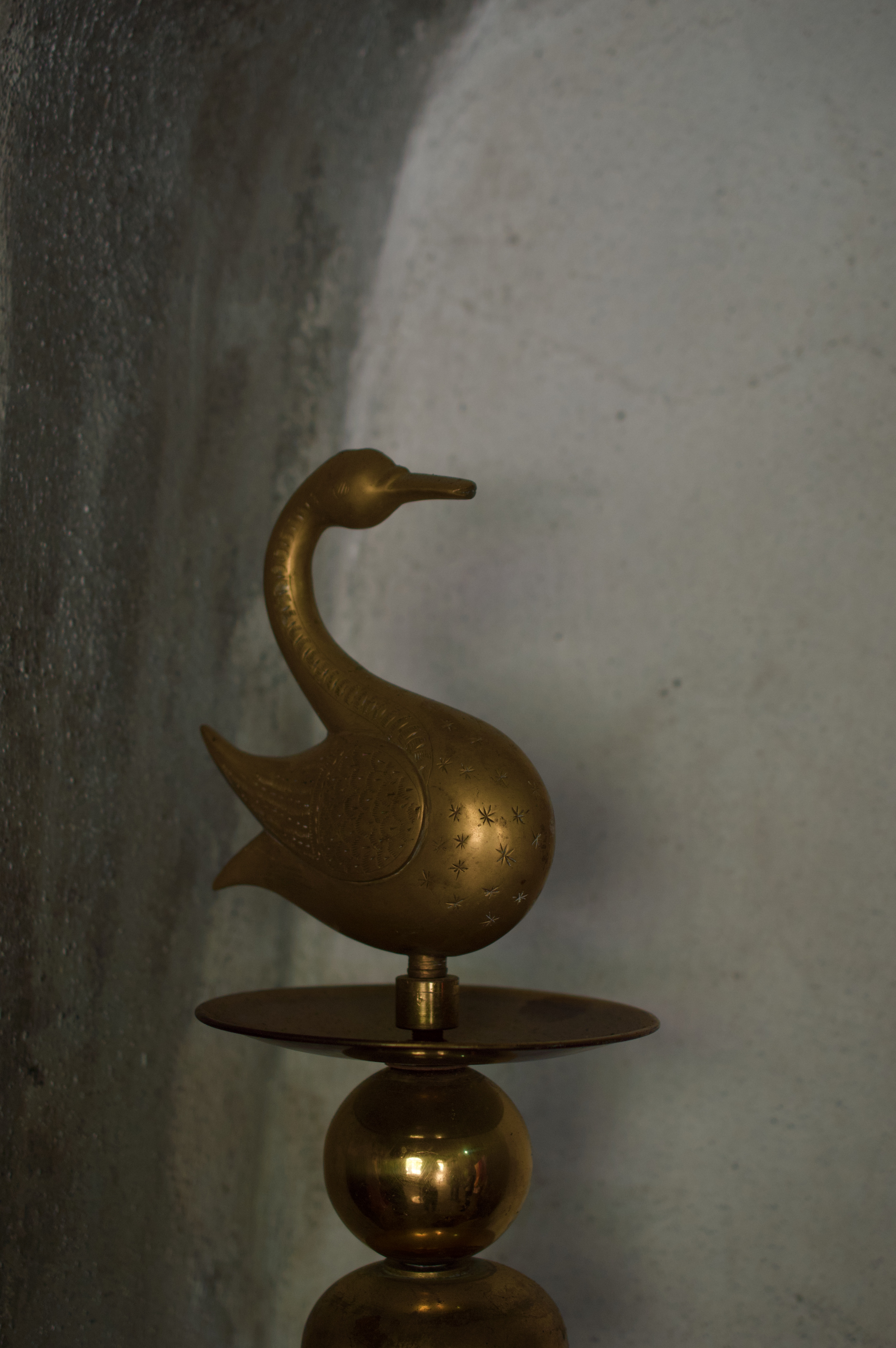 Yezidi shrine of Khiz Rahman in Baadre, near Shekhan in Duhok Governorate